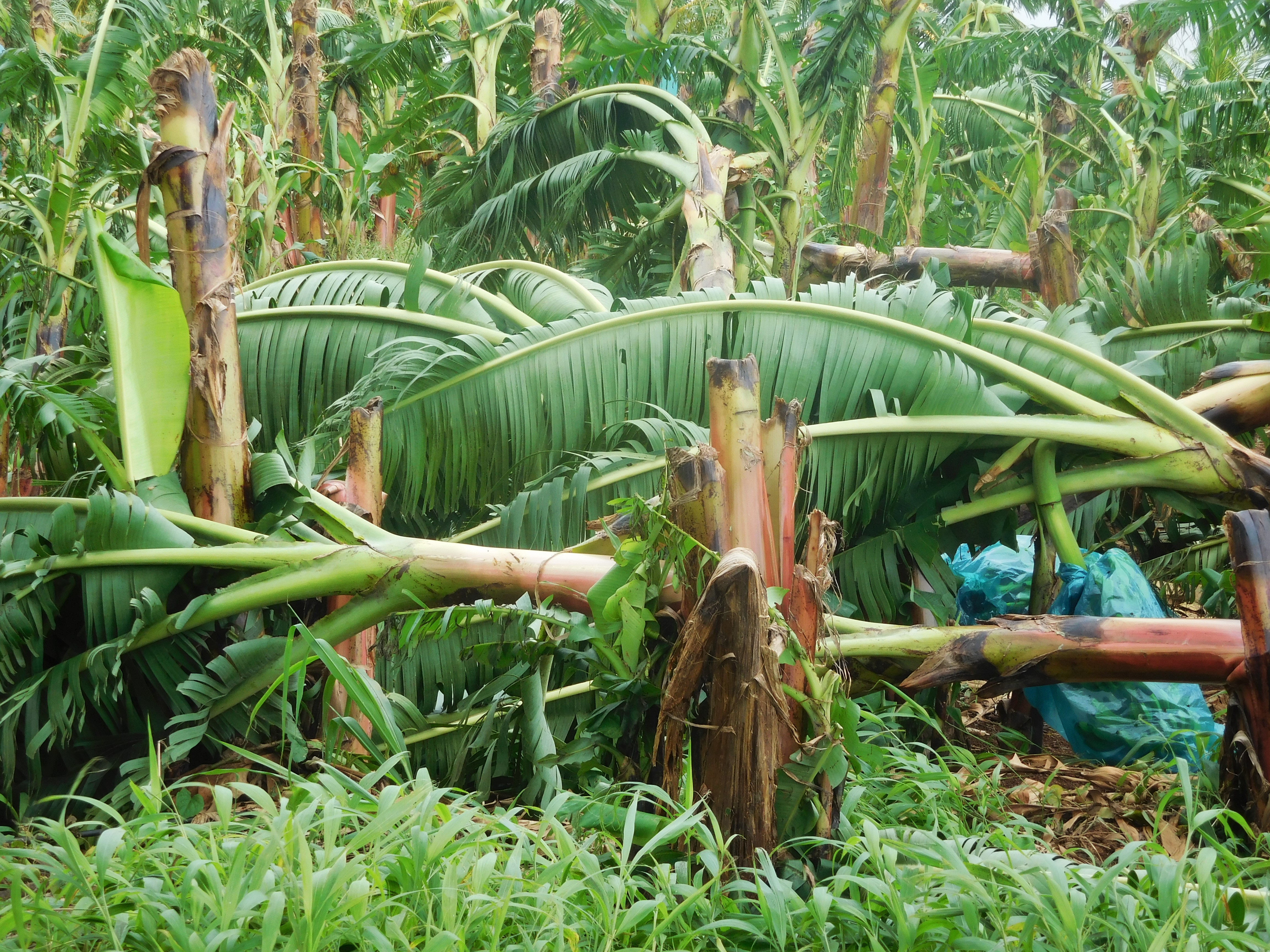 Effects of Hurricane Maria in Guadeloupe